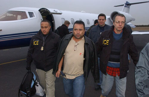 ICE agents escorting Arcangel de Jesus Henao Montoya.